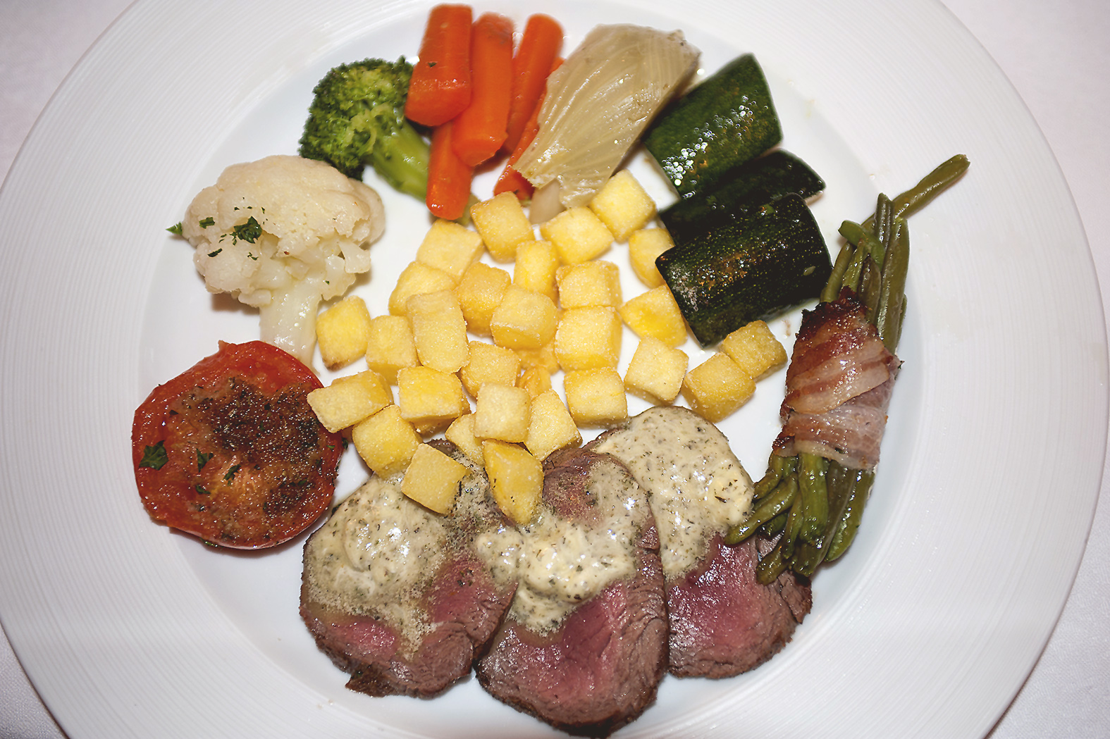 Chateaubriand with herbal butter, garnished with vegetables and french fries.